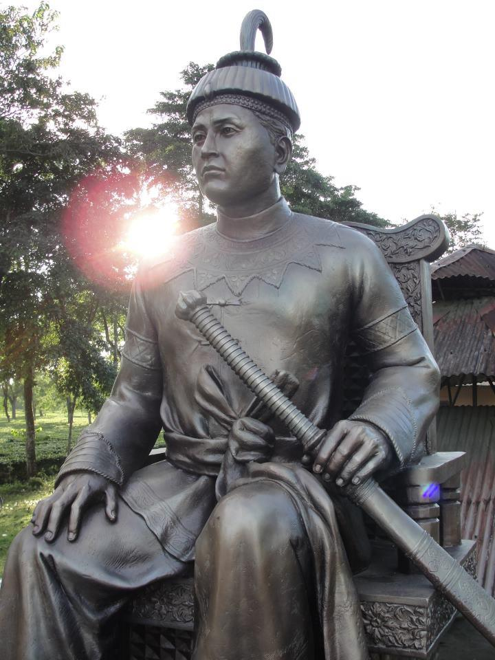 Sukafa